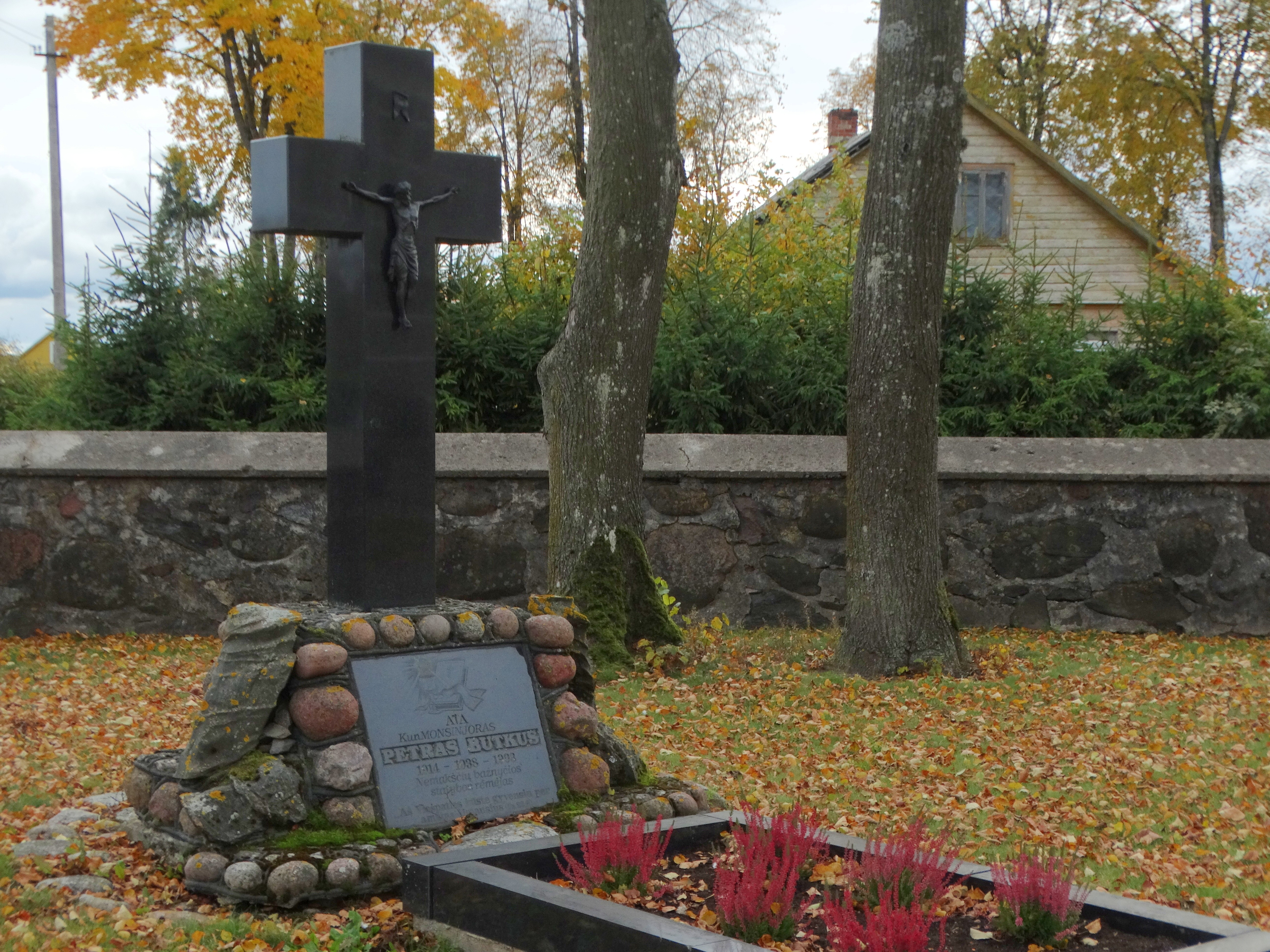 Nemakščiai, tomb of Petras Butkus by church, Raseiniai district, Lithuania